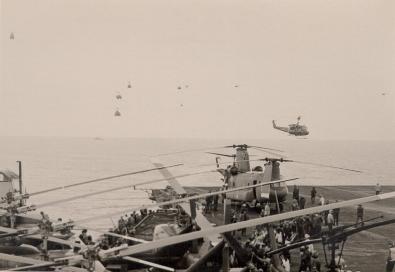 VNAF UH-1 Huey helicopters arrive at the USS Midway during Operation Frequent Wind